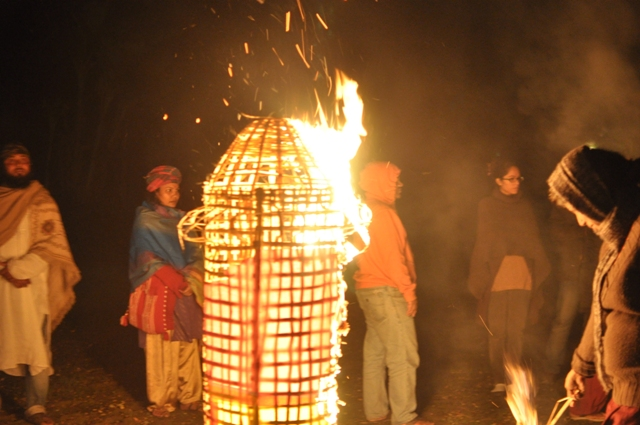 Annual Crack International Art Camp in Rahimpur, Kushtia, Bangladesh, 2011.